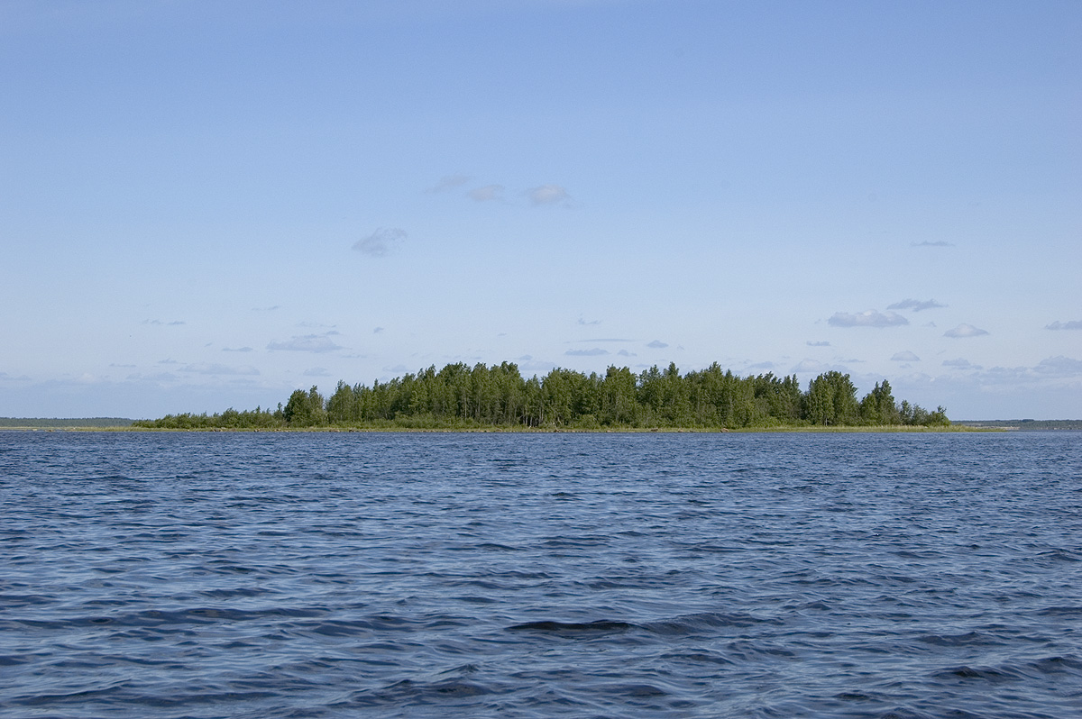 Kahvankari island, Oulu, Finland. View from south.